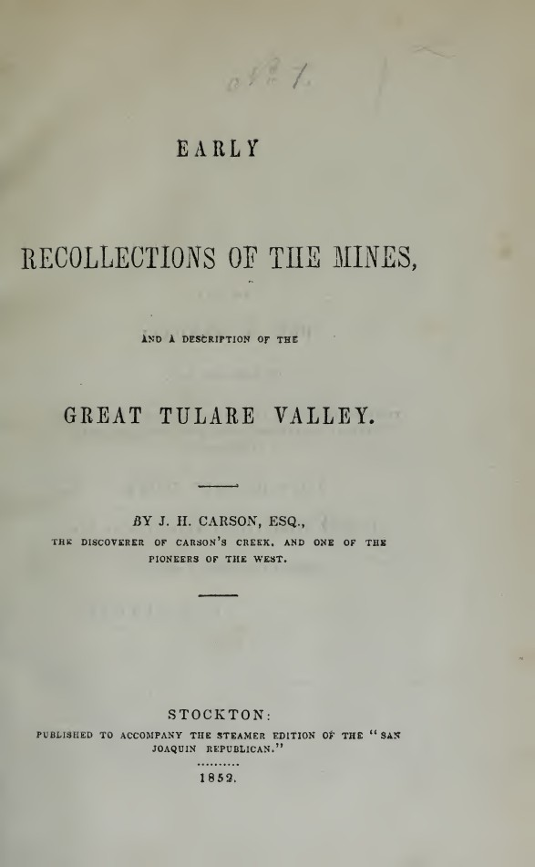 CARSON, James H. (18??-1853). Early recollections of the mines [and Tulare Plains] (1852)